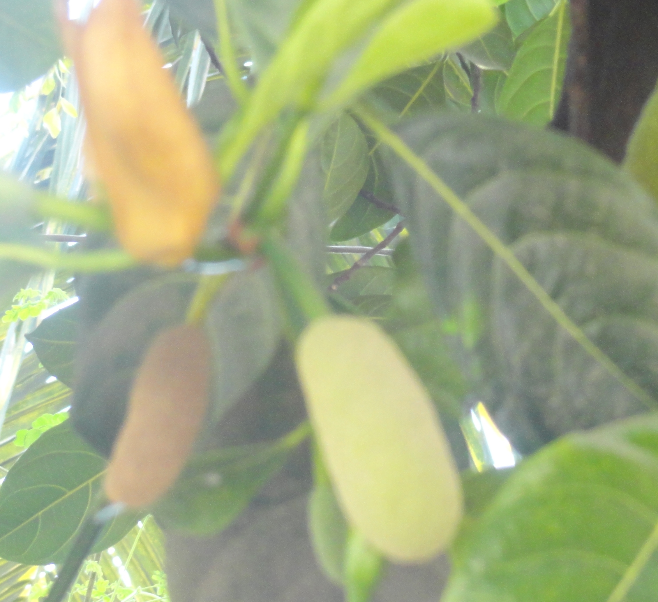 jack fruit tree.. flowers and buds. 1